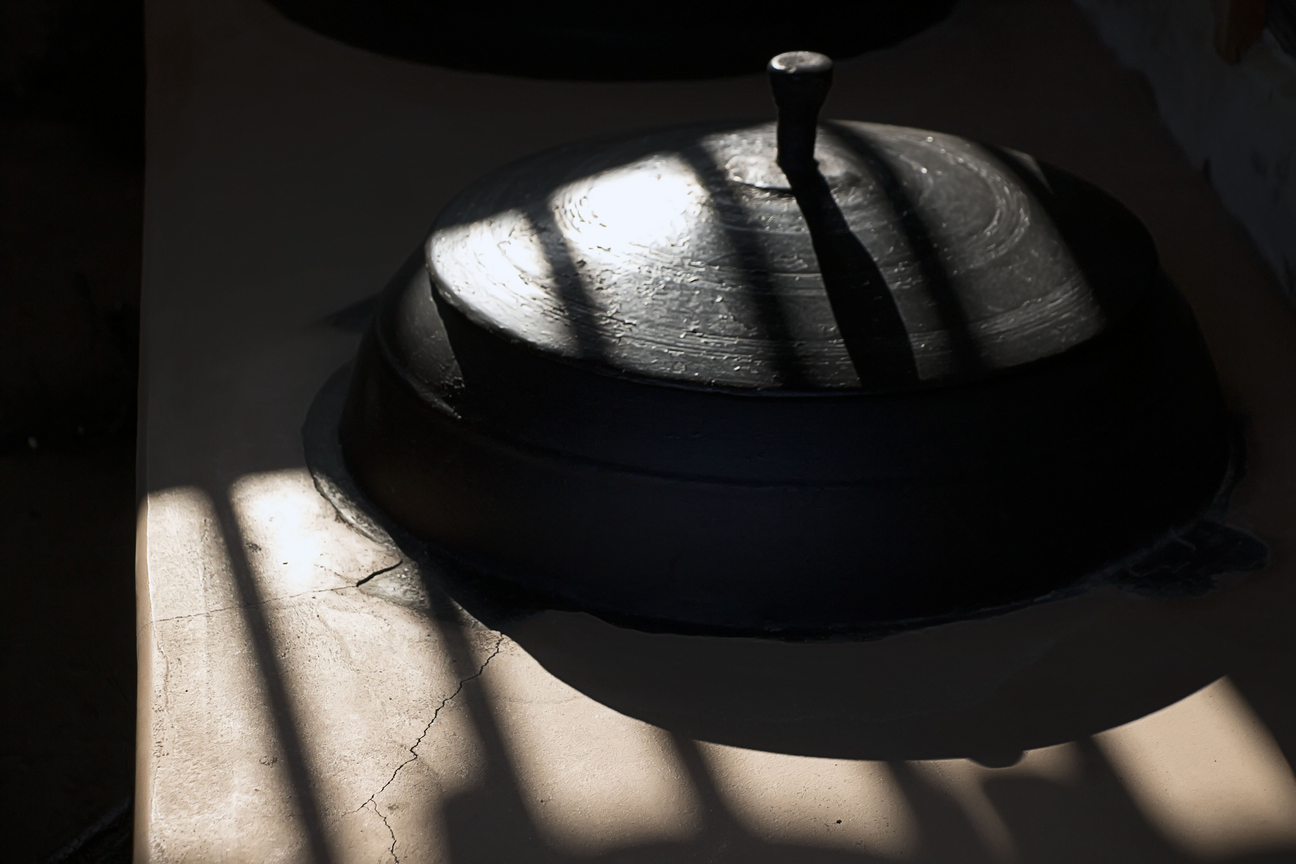 Gamasot